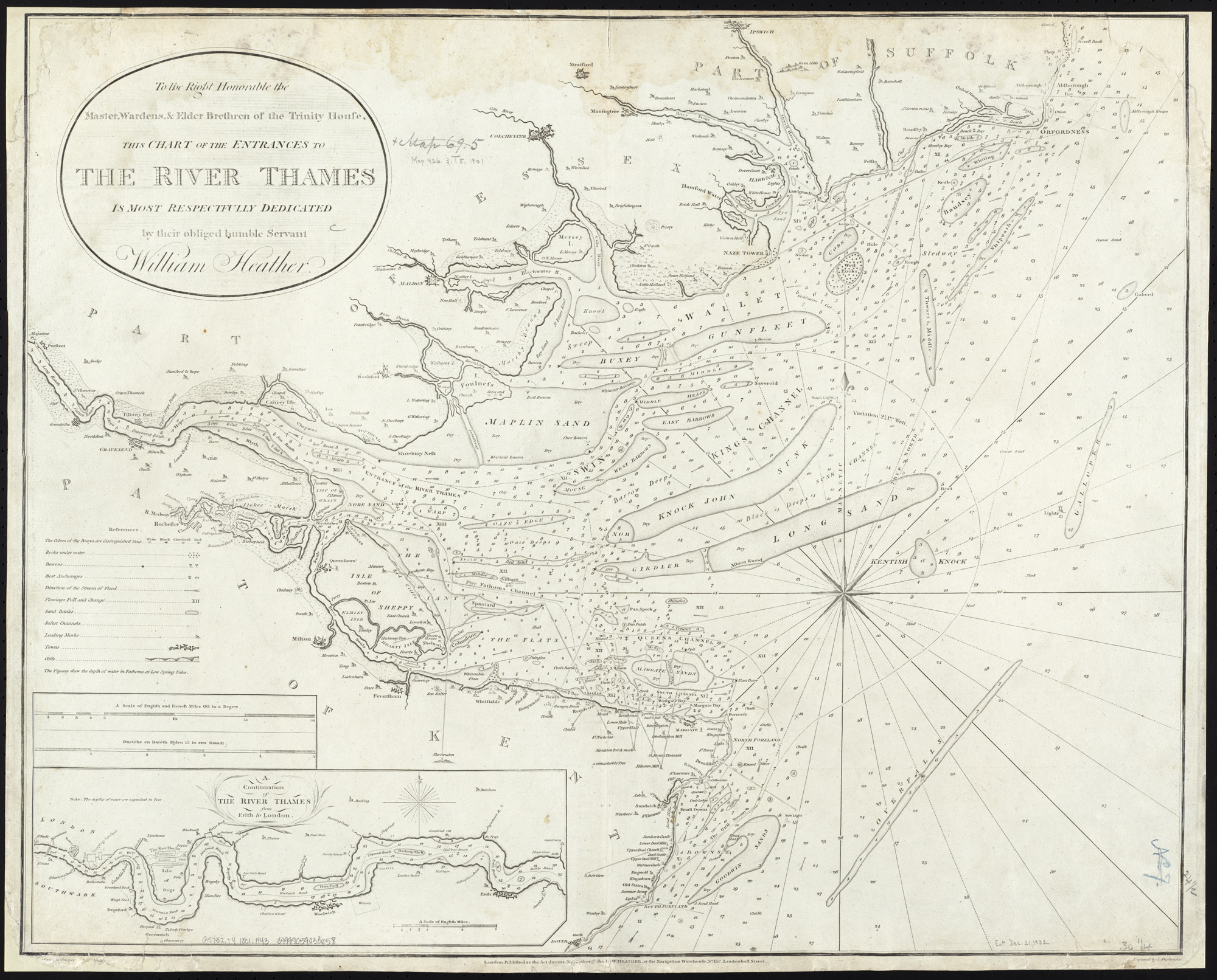 Zoom into this map at . Author: Heather, W. (William) Publisher: Heather, W. (William) Date: 1801 Location: Thames River (England) Dimensions: 63 x 77 cm. Scale: [ca. 1:170,000] Call Number: G5752.T4 1801.H43